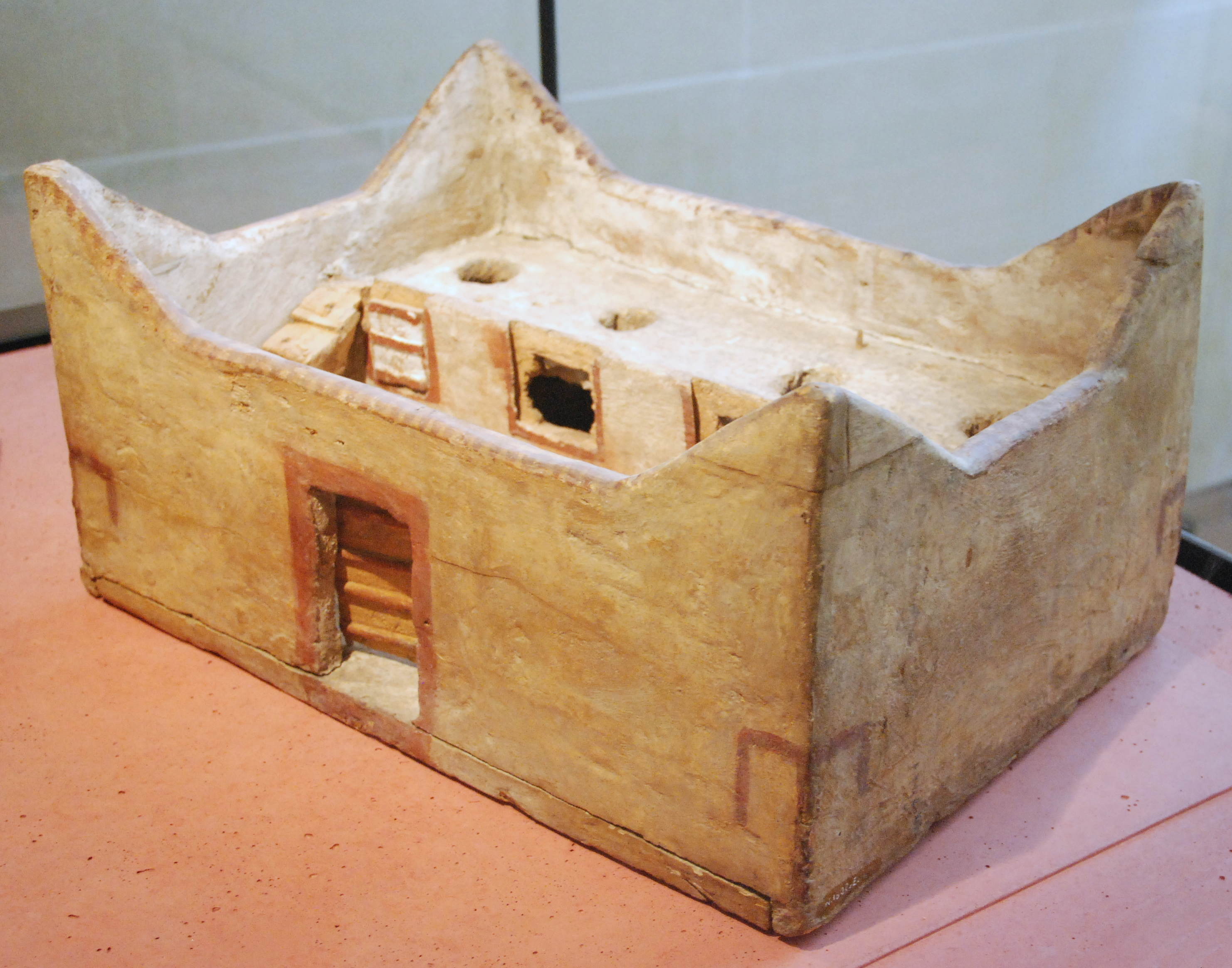 The model of a granary, painted wood, ancient Egypt, about 2000-1900 BC, Middle Kingdom.